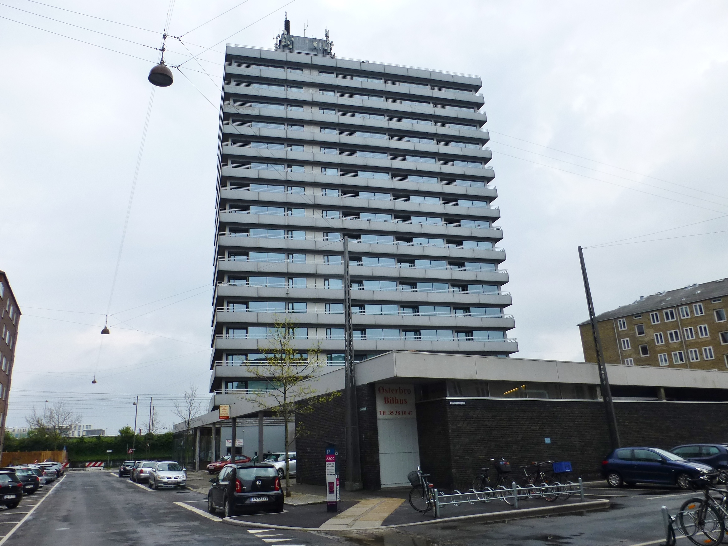 The high-rise Domus Portus seen from the corner of Lindenovsgade and Spangbergsgade in Østerbro in Copenhagen.